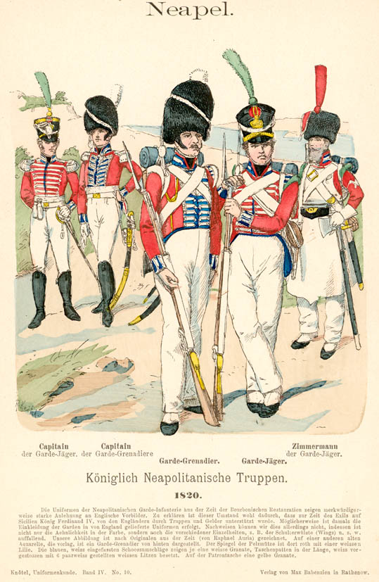 Neapel. Königlich Neapolitanische Truppen. 1820